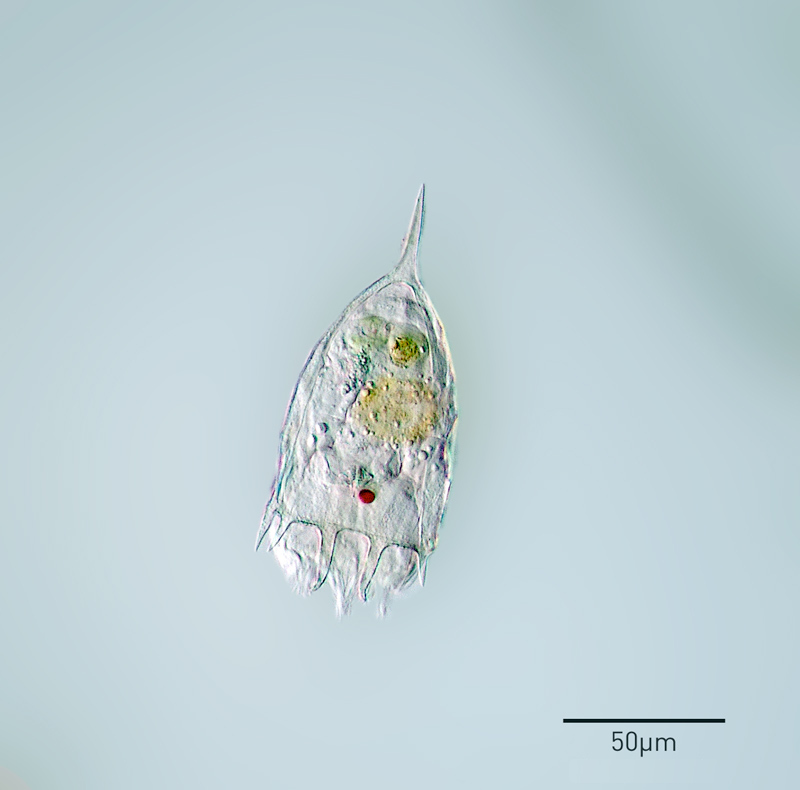 The rotifer species Keratella cochlearis.